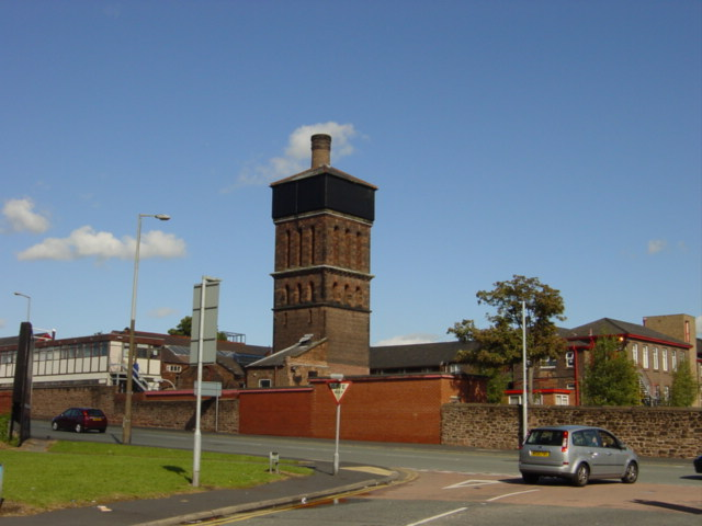 Whiston Hospital. Tower of the original Whiston Hospital building, inside the walls there are now many modern facilities including A & E, maternity and a specialist burns and plastic surgery unit.